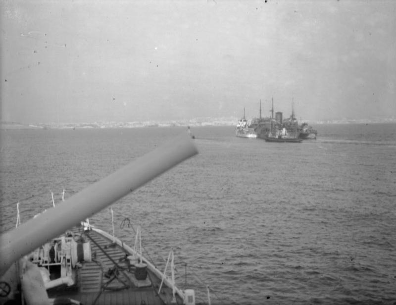 Operation Pedestal, August 1942 15 August: The arrival of the OHIO at Malta: The damaged tanker OHIO, with destroyers alongside, moving slowly through the minefield outside Grand Harbour, Valletta. The ship reached Malta safely after being torpedoed and attacked from the air.